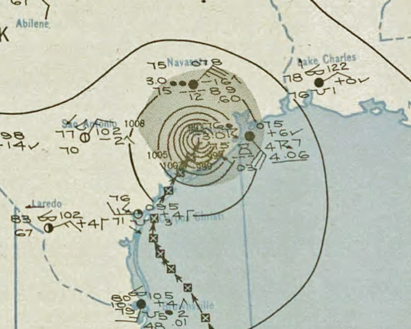 Surface weather analysis of the 1945 Texas hurricane on 28 August 1945.